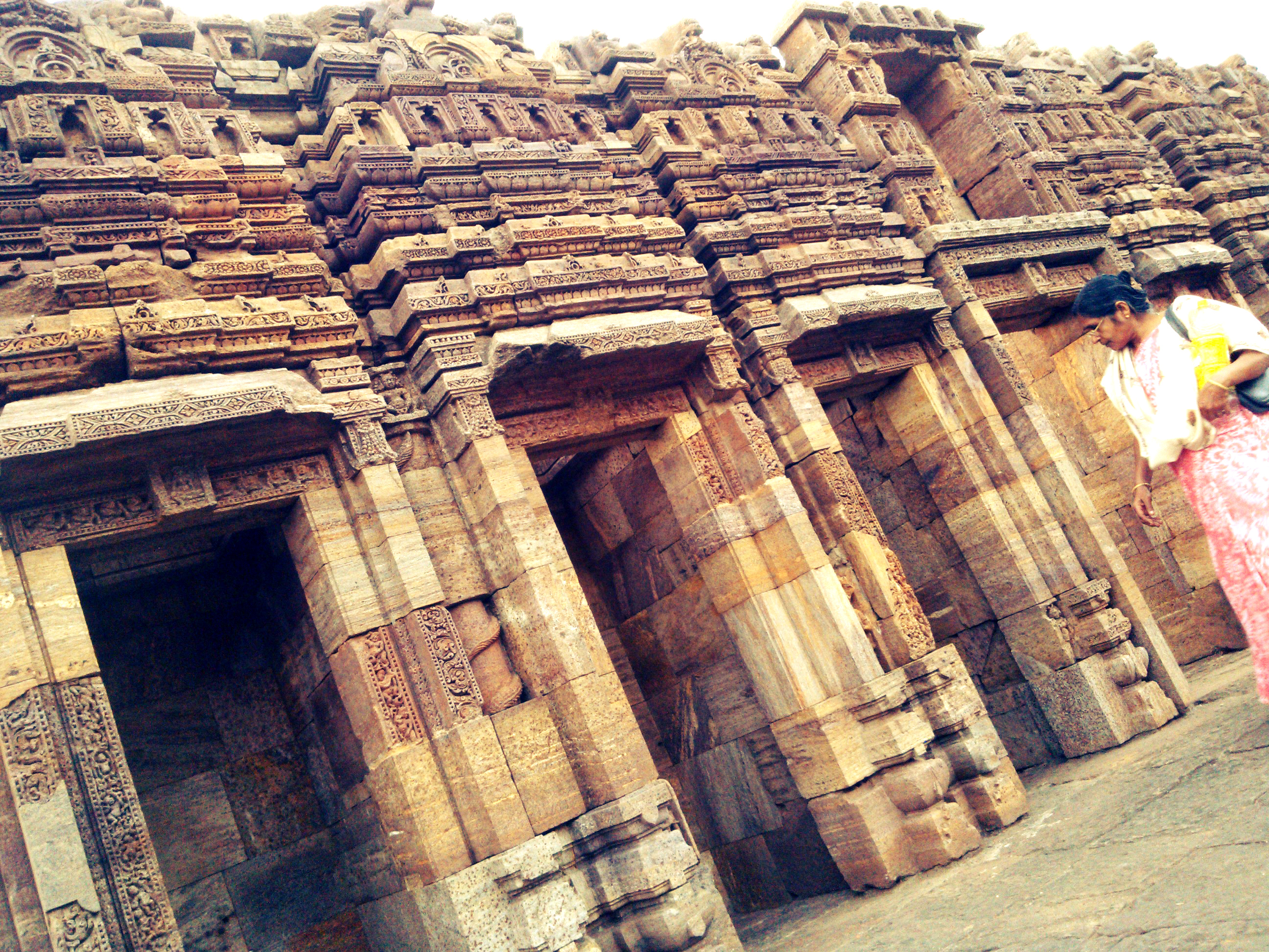 Structure inside Ratnagiri